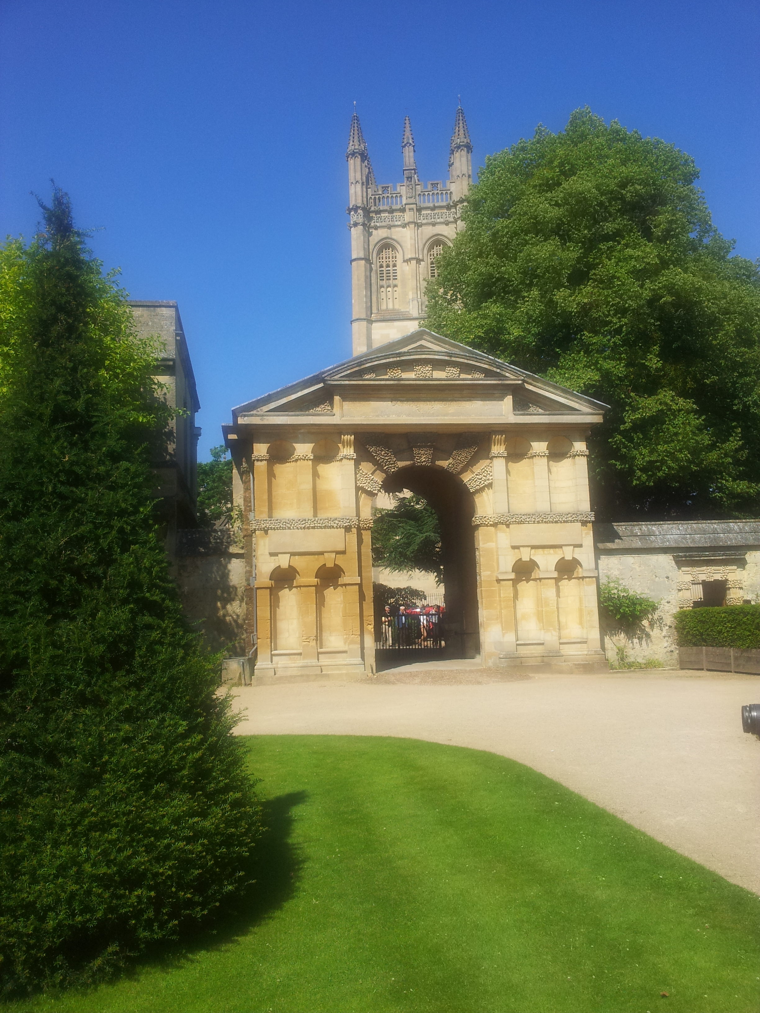 Main gate of the Botanic Garden, High Street, Oxford, seen from the south, with Magdalen Tower beyond